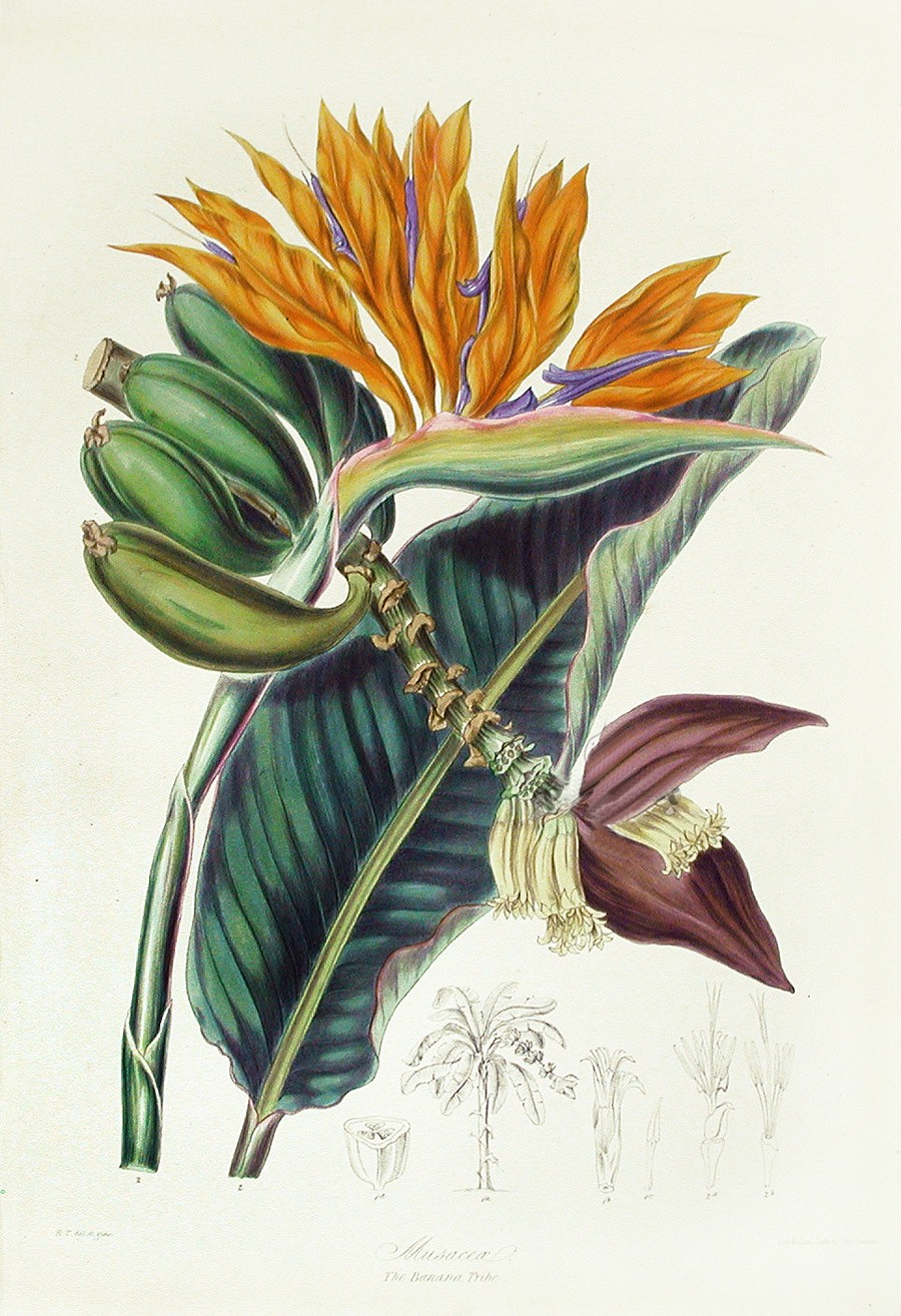 The Banana Tribe